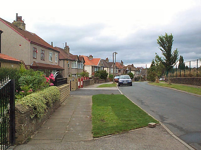 Garden Lane, Heaton. An ordinary street in an ordinary suburb of an ordinary city. Yet No 6 Garden Lane was once home to Peter Sutcliffe, the 'Yorkshire Ripper'.